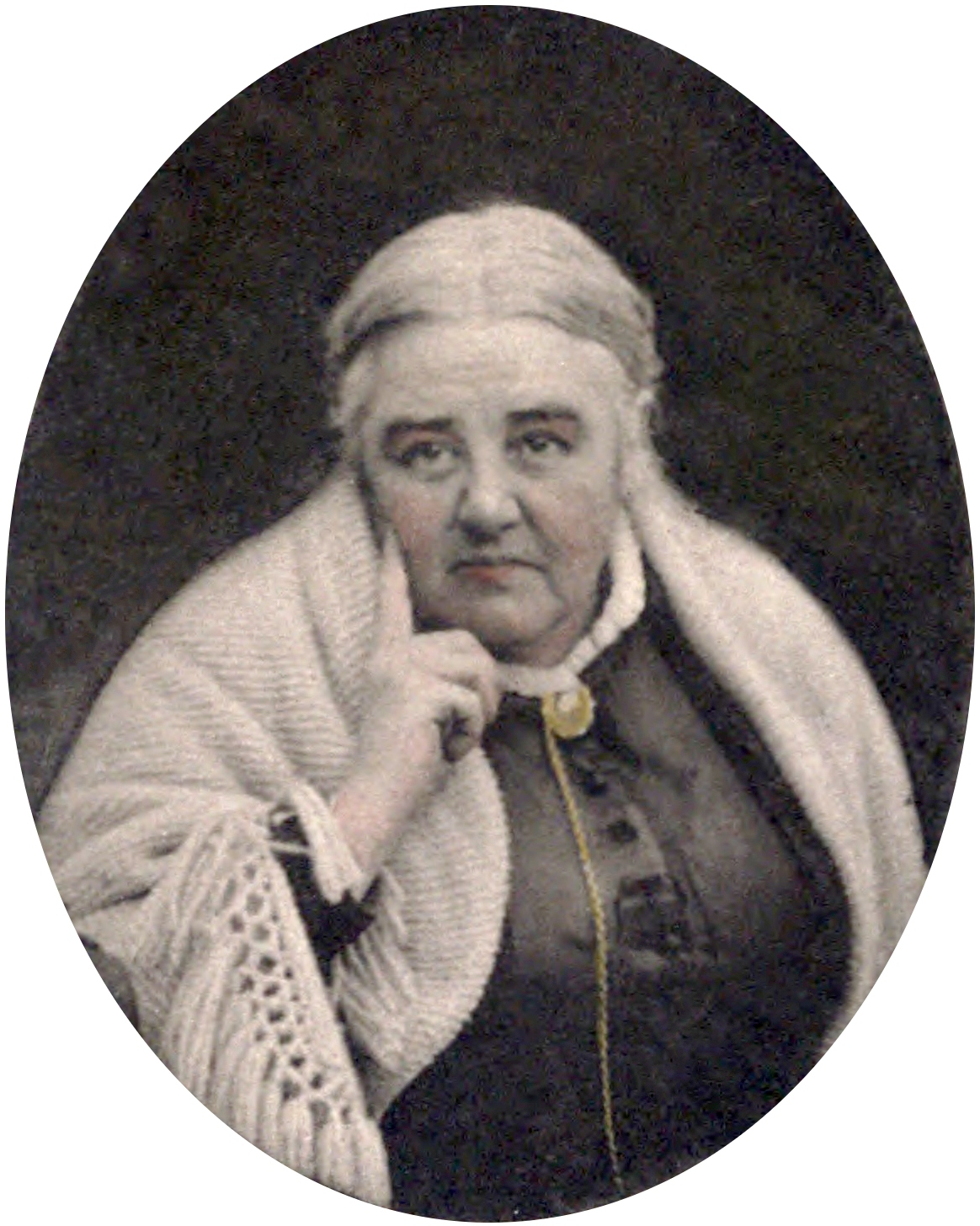 Picture of Sophia Jex-Blake, the physician, feminist, and writer.